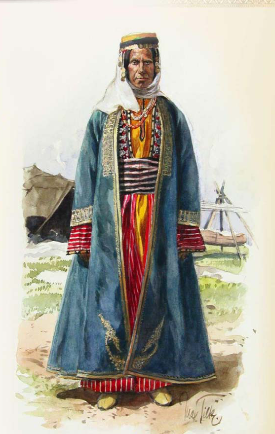 Kurd Woman in tradiotional clothes